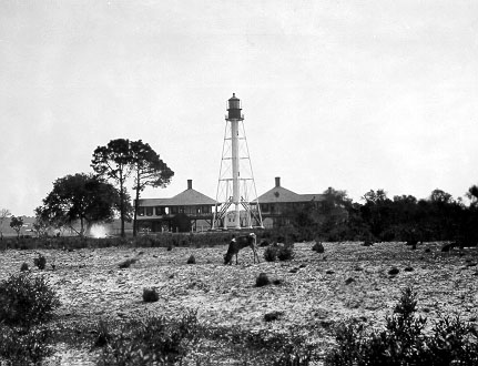 Sapelo Island skelton light. 1905-1933. Tower moved to South Fox Island, Michigan This image or file is a work of a United States Coast Guard service personnel or employee, taken or made as part of that person's official duties. As a work of the U.S. federal government, the image or file is in the public domain (17 U.S.C. § 101 and § 105, USCG main privacy policy and specific privacy policy for its imagery server).